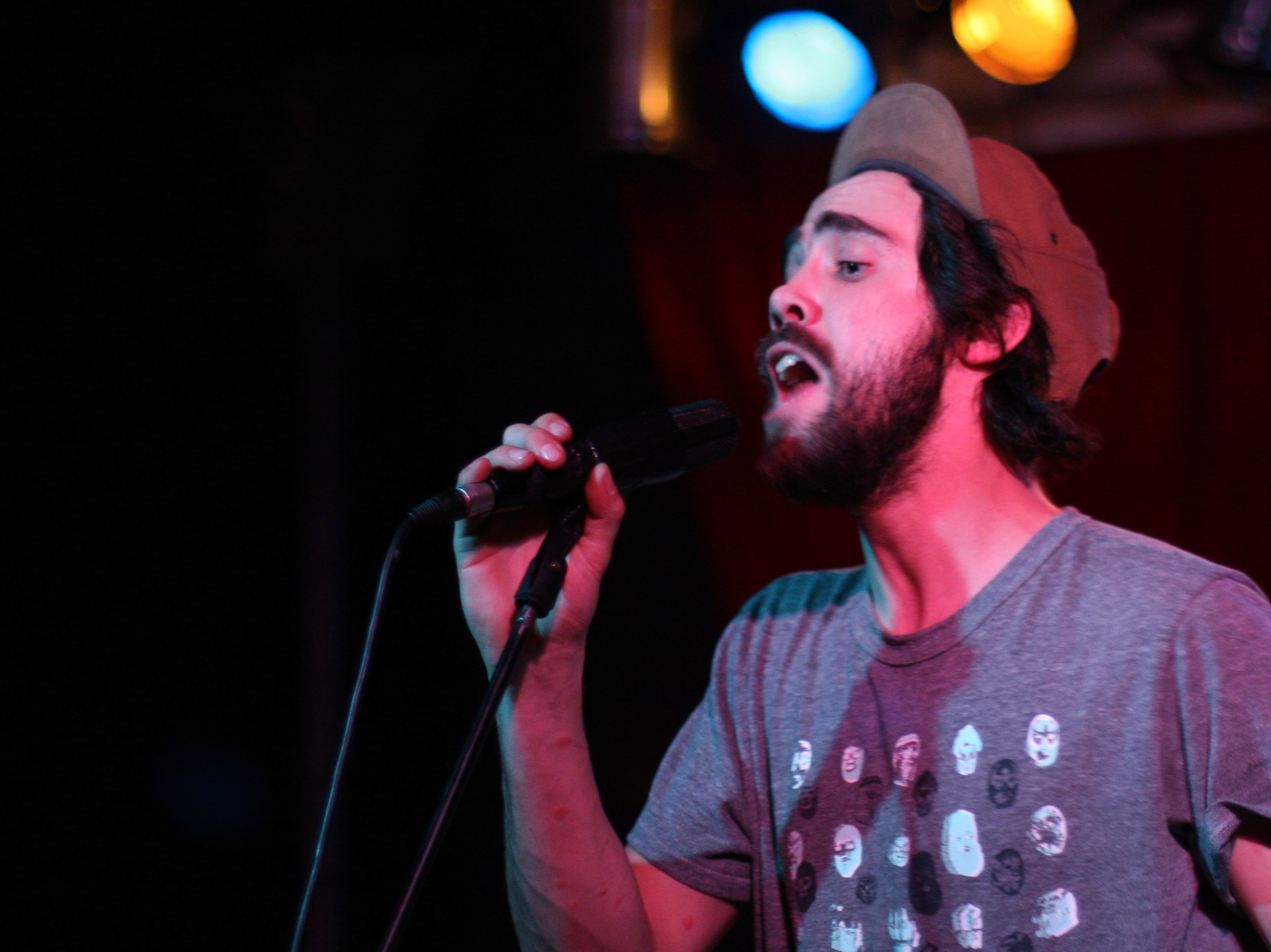 Patrick Watson in Barcelona, Spain.